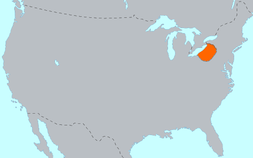 Nation of Cat, Éire tribe area